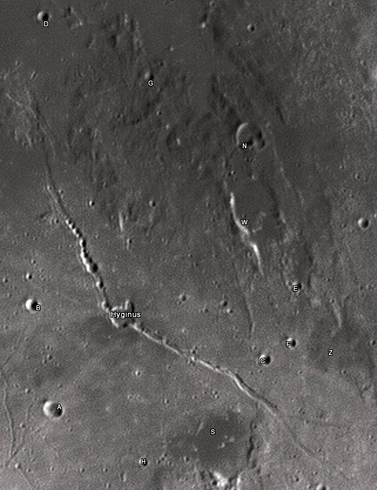 Hyginus lunar crater as seen from Earth with satellite craters labeled